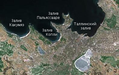 Tallinn Bay